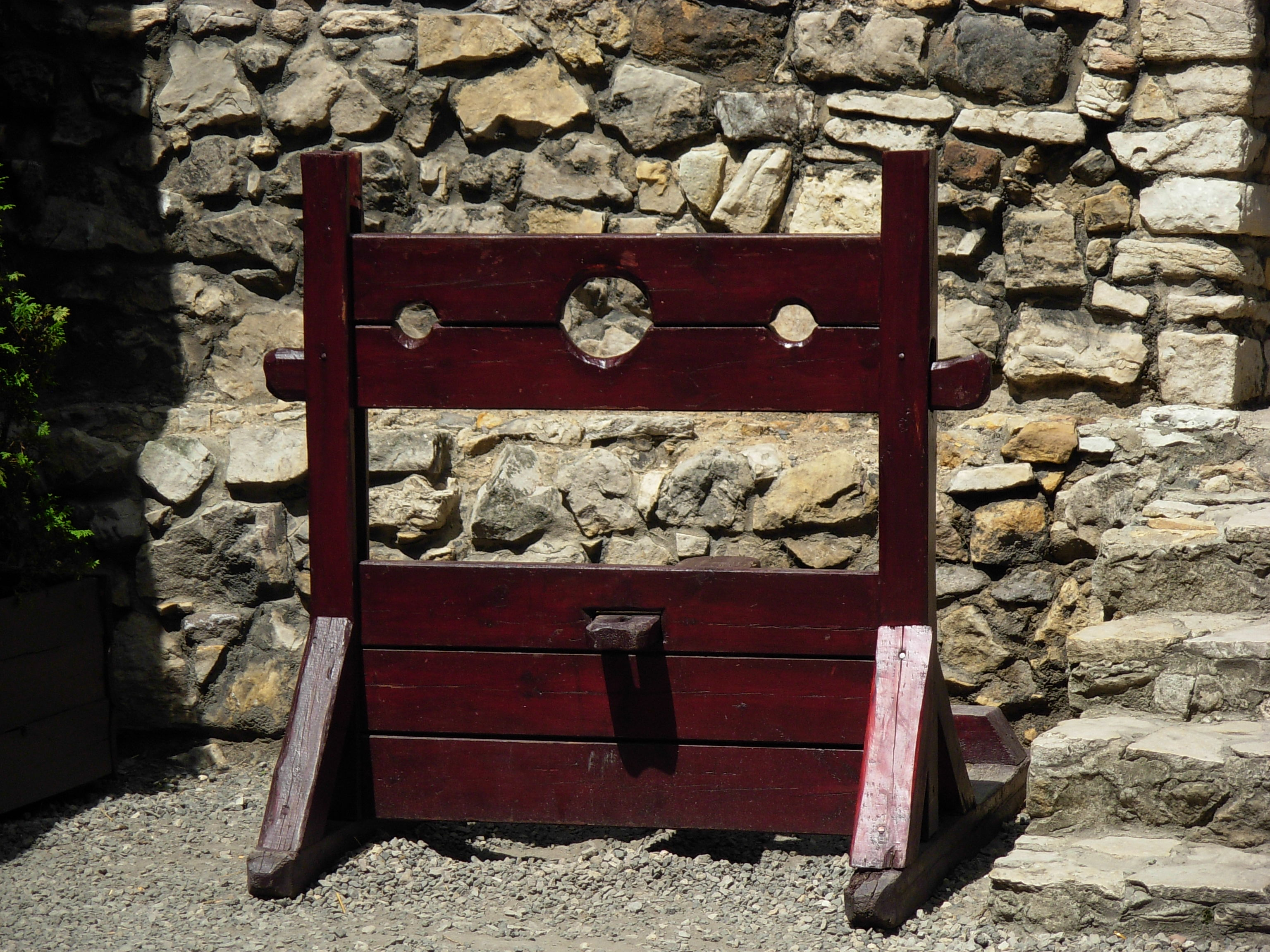 Castle of Będzin, Poland.